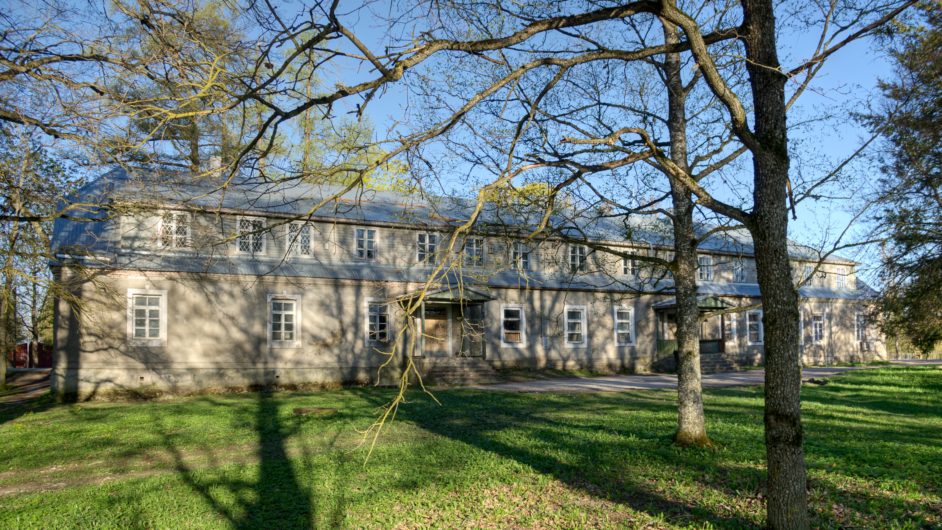 Torma manor house